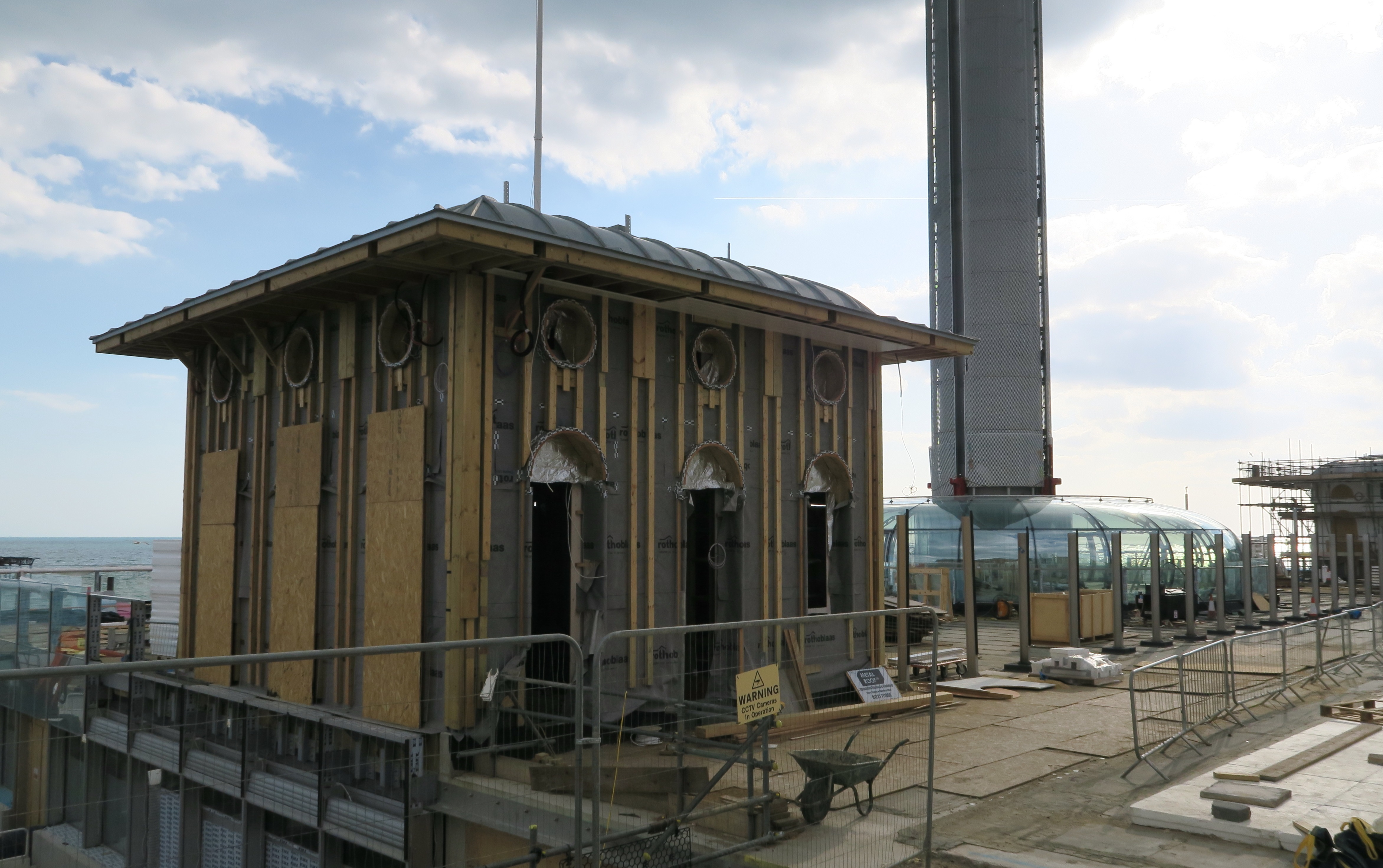 Construction of i360, May 2016